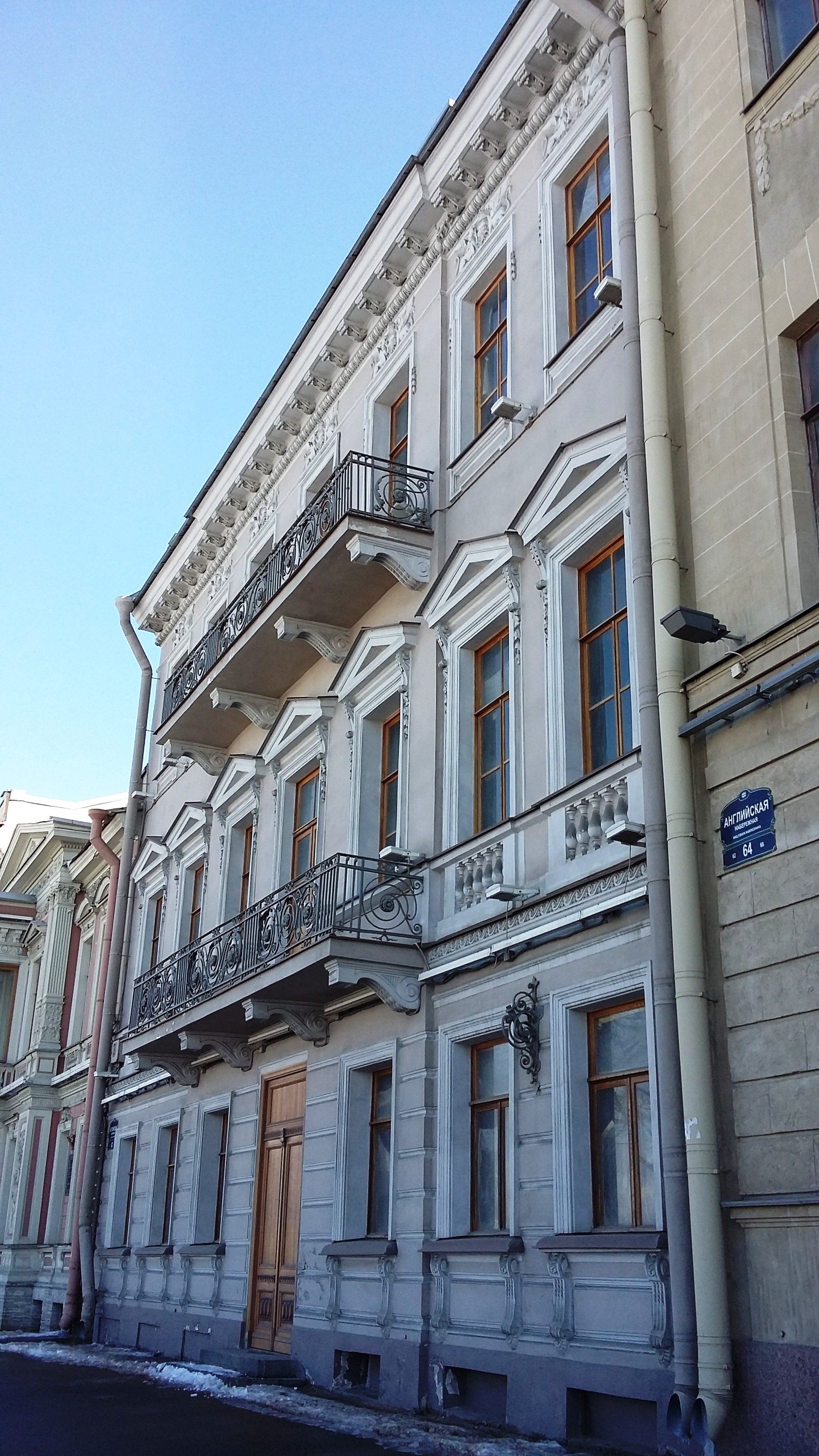 English Embankment, 62